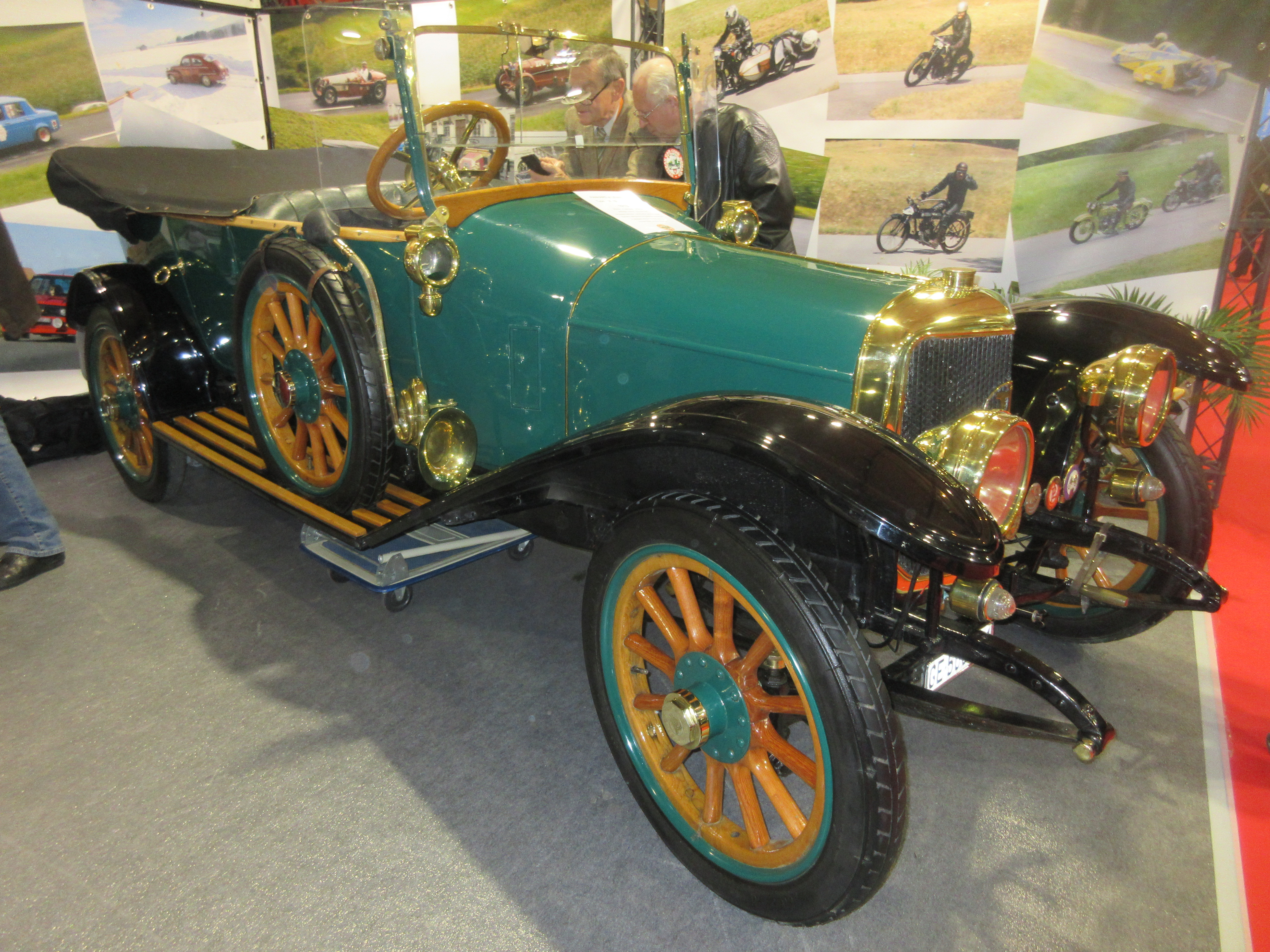 Subject: Panhard & Levassor Type X19 Torpedo Author: Luc106 Date:November 9th, 2018 Event: Epoqu'Auto 2018 Place/Country: Lyon Eurexpo, Chassieu (France) I release all rights in the public domain.